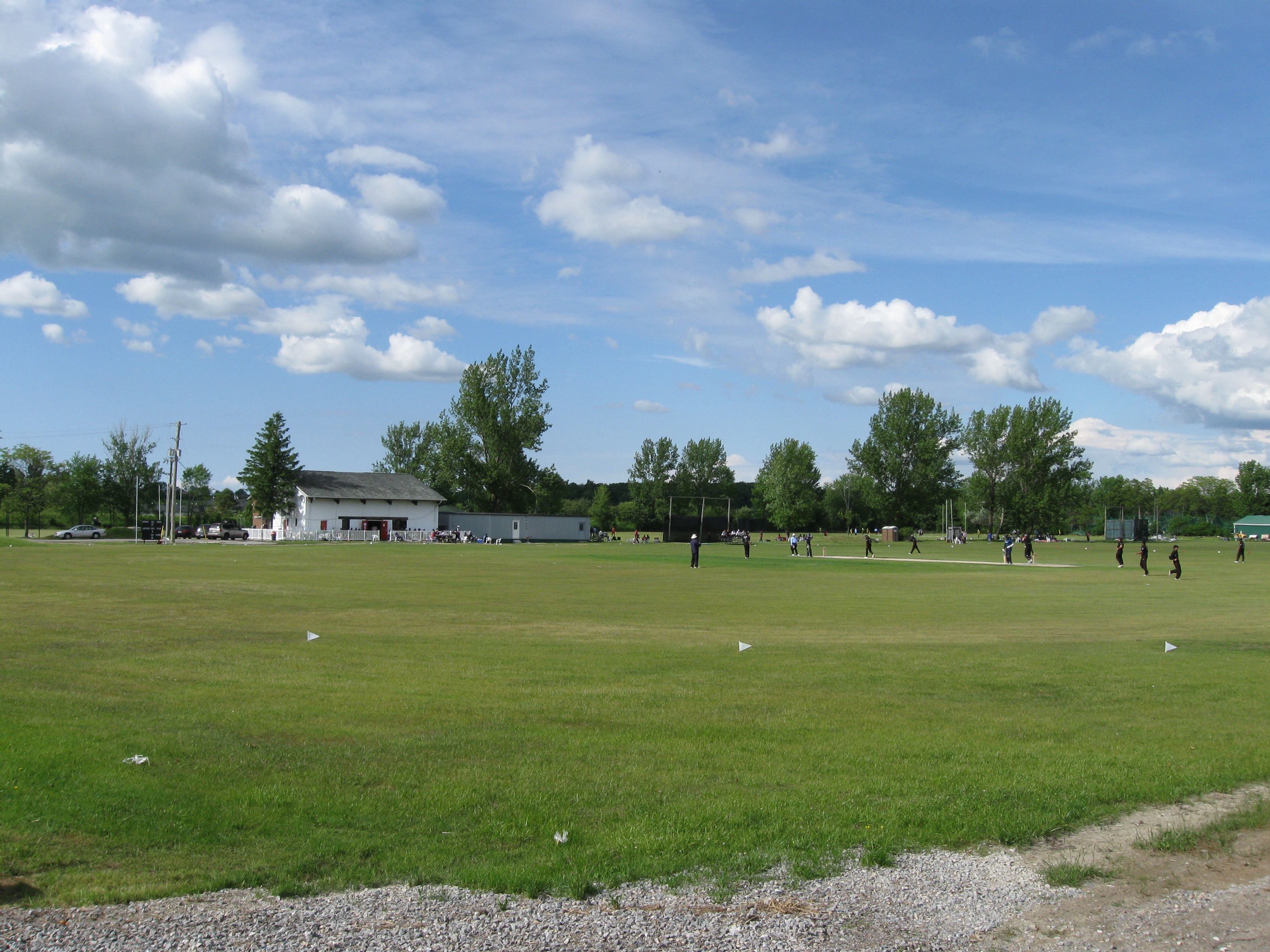 Maple Leaf Cricket Club. I would have tried for an action shot, but I have no idea what that would look like.